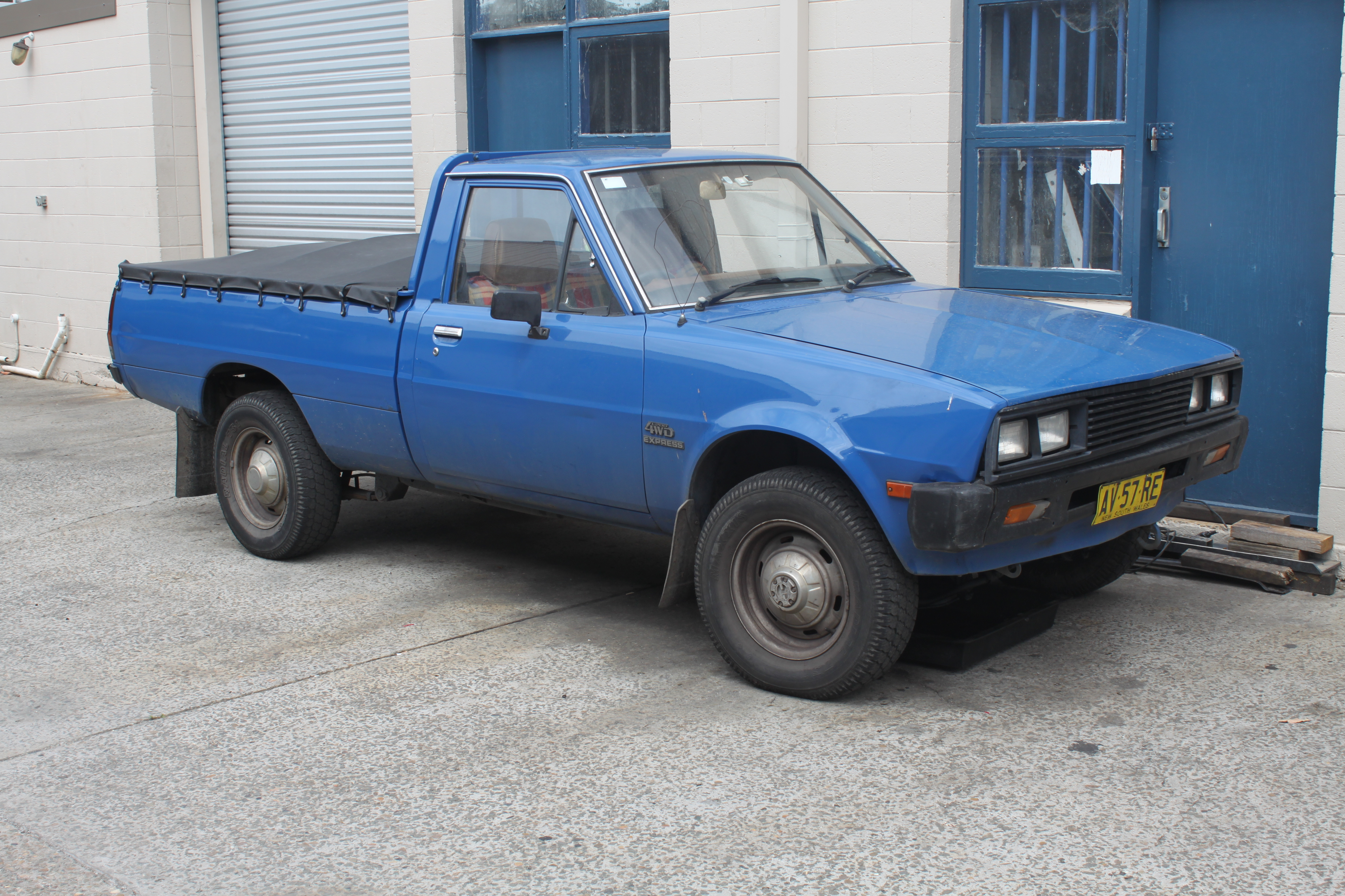 1984 Mitsubishi L200 Express (MC) 2.3 Diesel 4WD utility. According to the Roads and Maritime Services, this is a "1985 BLUE MITSUBISHI MC L200 EXPRESS 4WD-D UTILITY". However, MC models ended production in 1984 and the grille fitted is from the MC. Photographed in New South Wales, Australia.